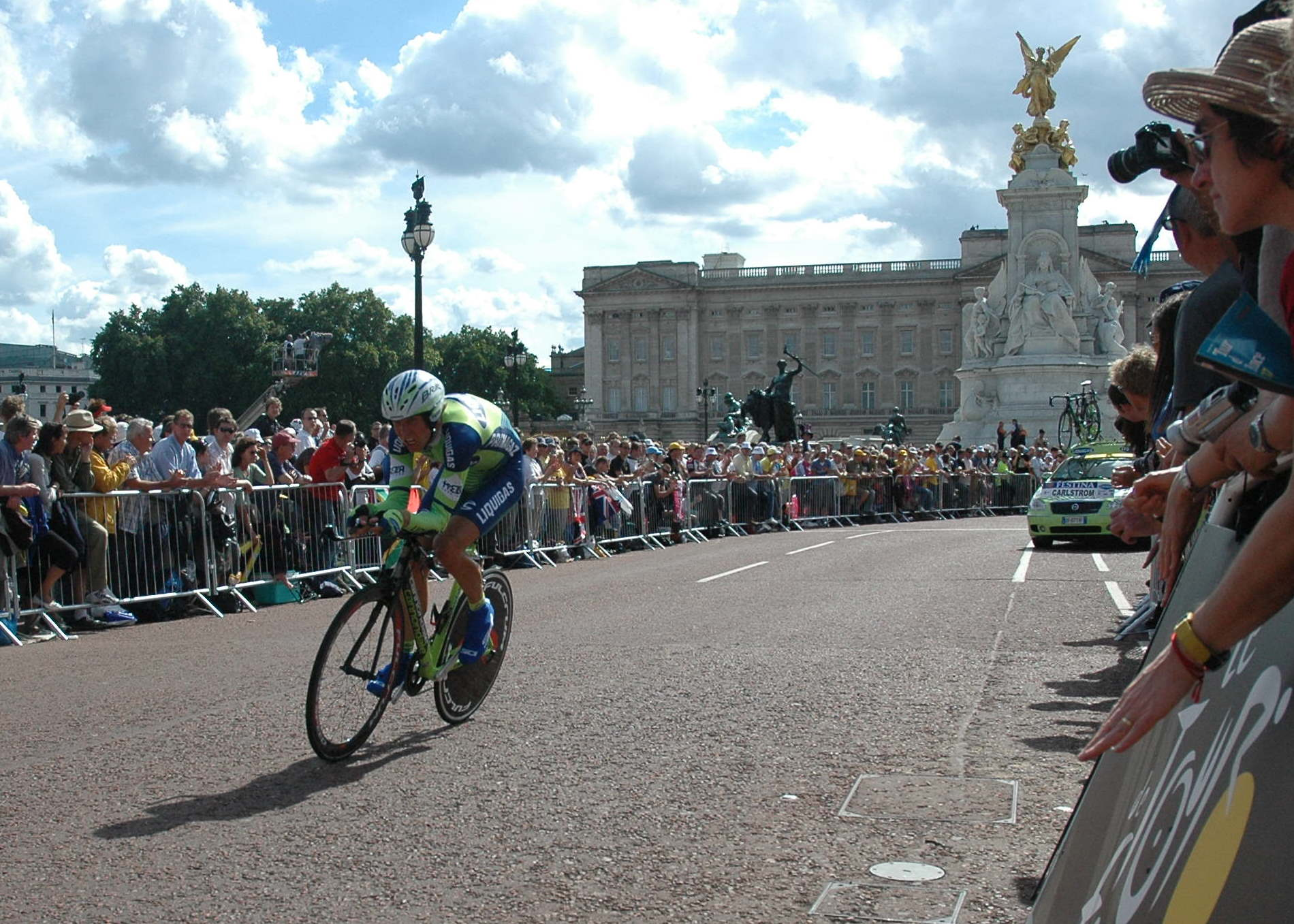 Tour de France 2007 in London; Victoria Memorial and Buckingham Palace;Kjell Carlström on the bikeDSC_1759